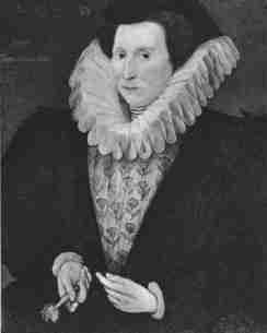 Anne Carew, daughter of Sir Nicholas Carew and Elizabeth Bryan. Wife of Sir Nicholas Throckmorton and mother of Elizabeth Throckmorton.